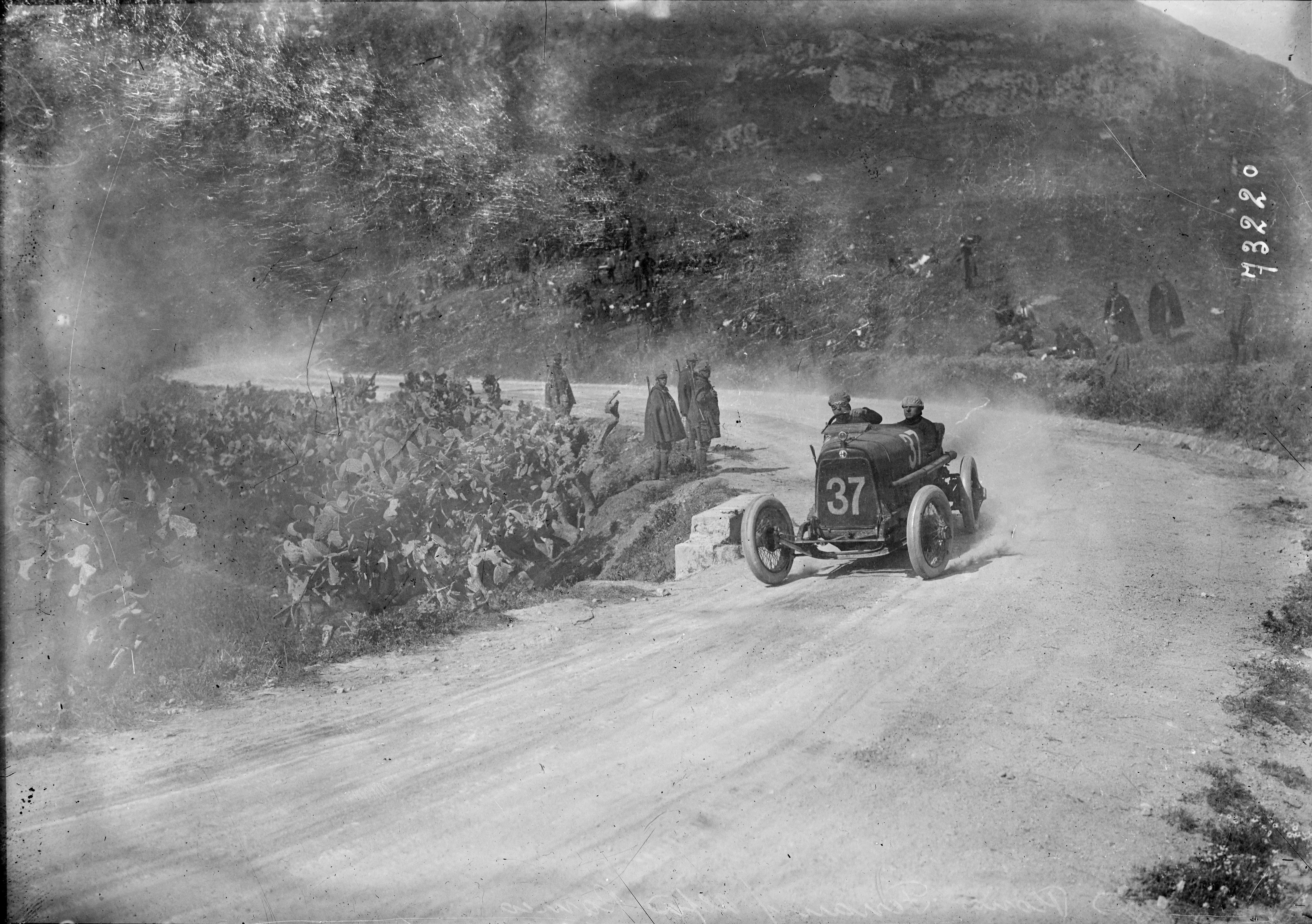 Enzo Ferrari in his Alfa Romeo at the 1922 Targa Florio.